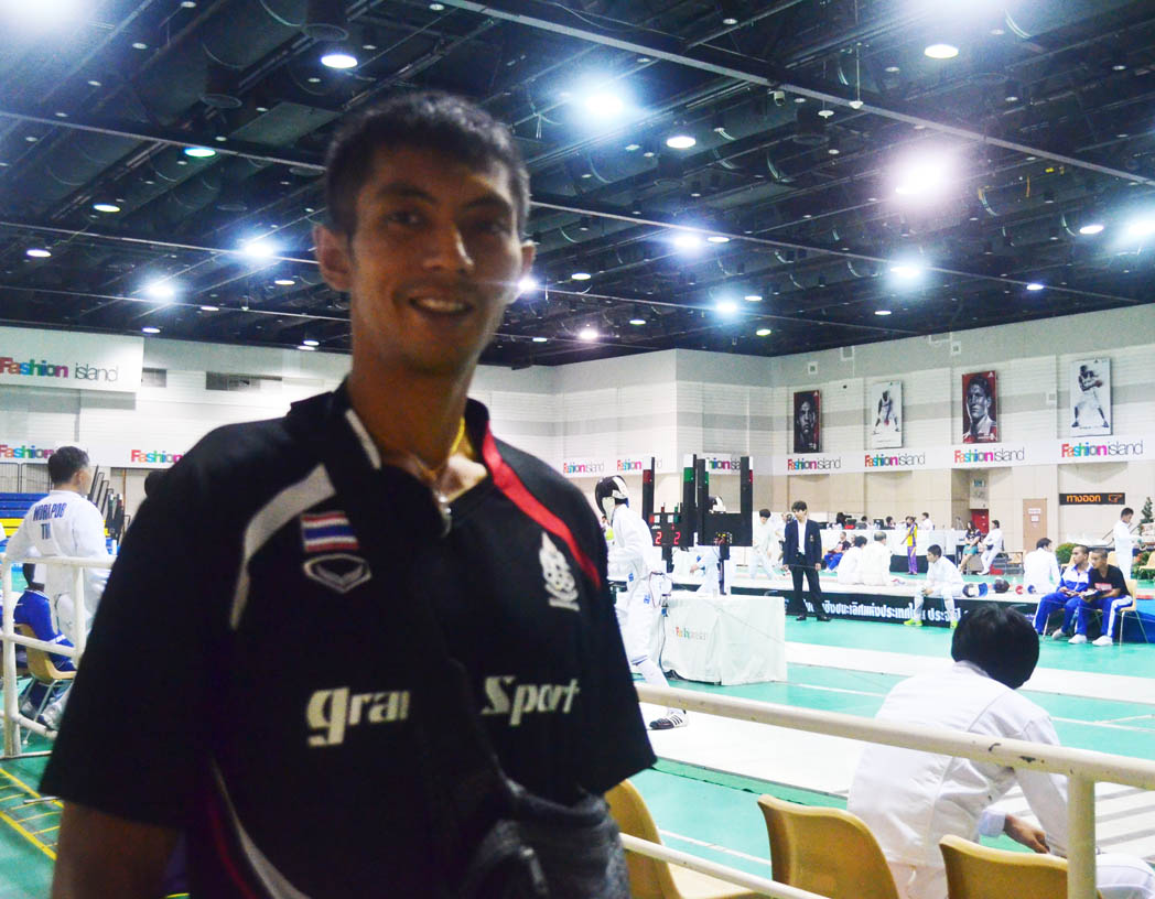 Wiradech Kothny 2